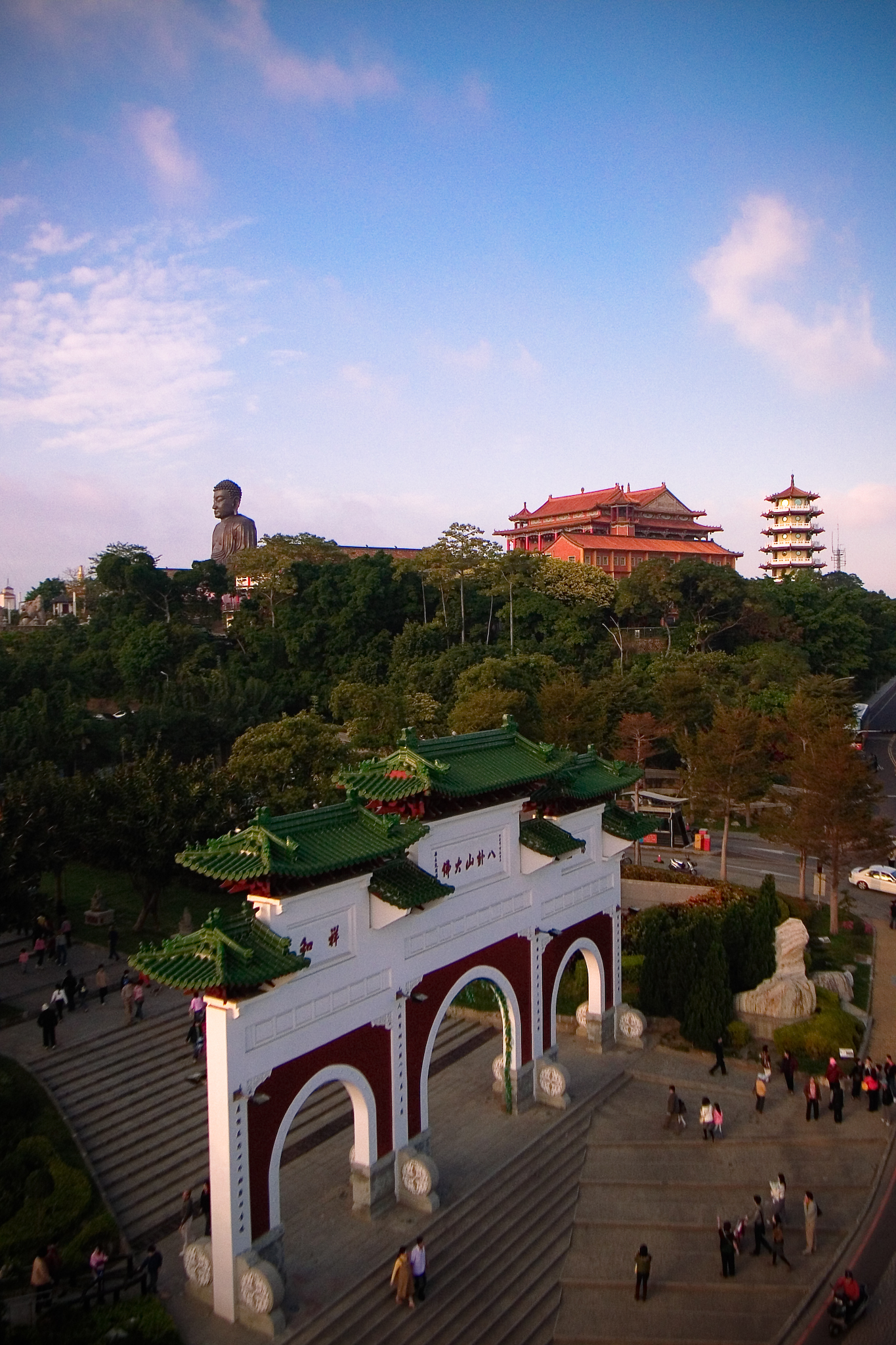 Baguashan, located at Changhua City,Changhua County,Taiwan